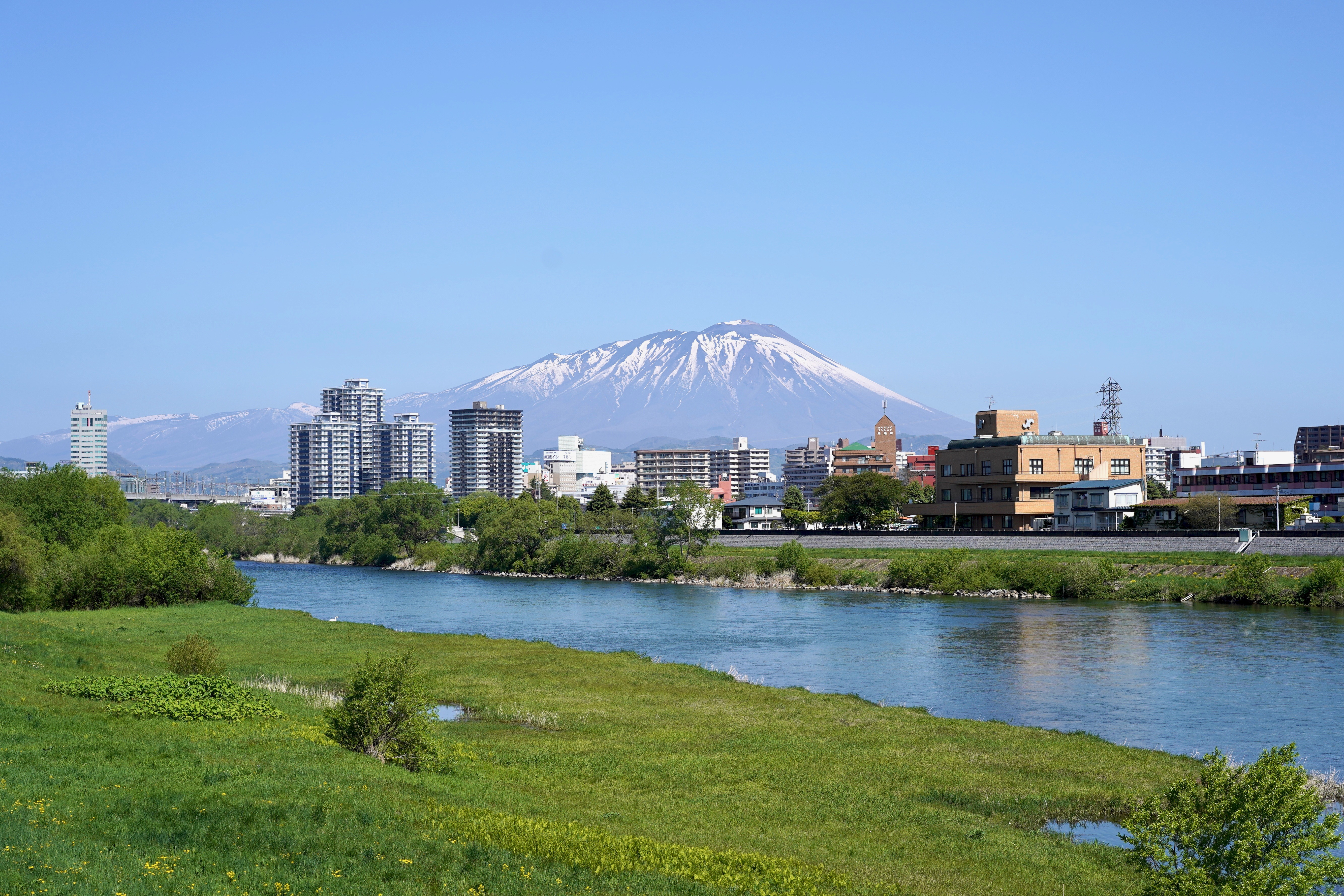 View of Morioka, Mt. Iwate and River Kitakami from Meiji Bridge